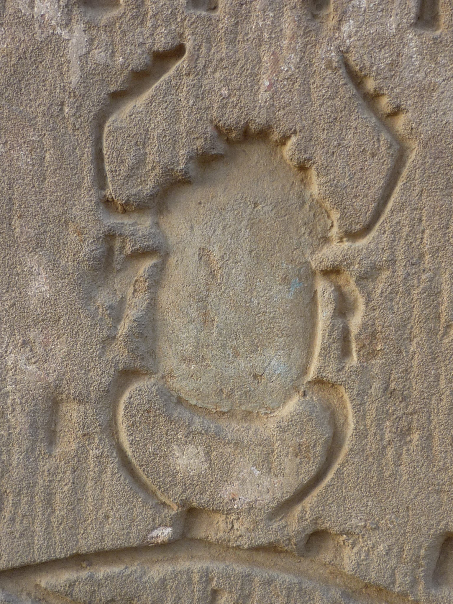 Relief of scarab in Nectanebo court, Luxor Temple, Egypt